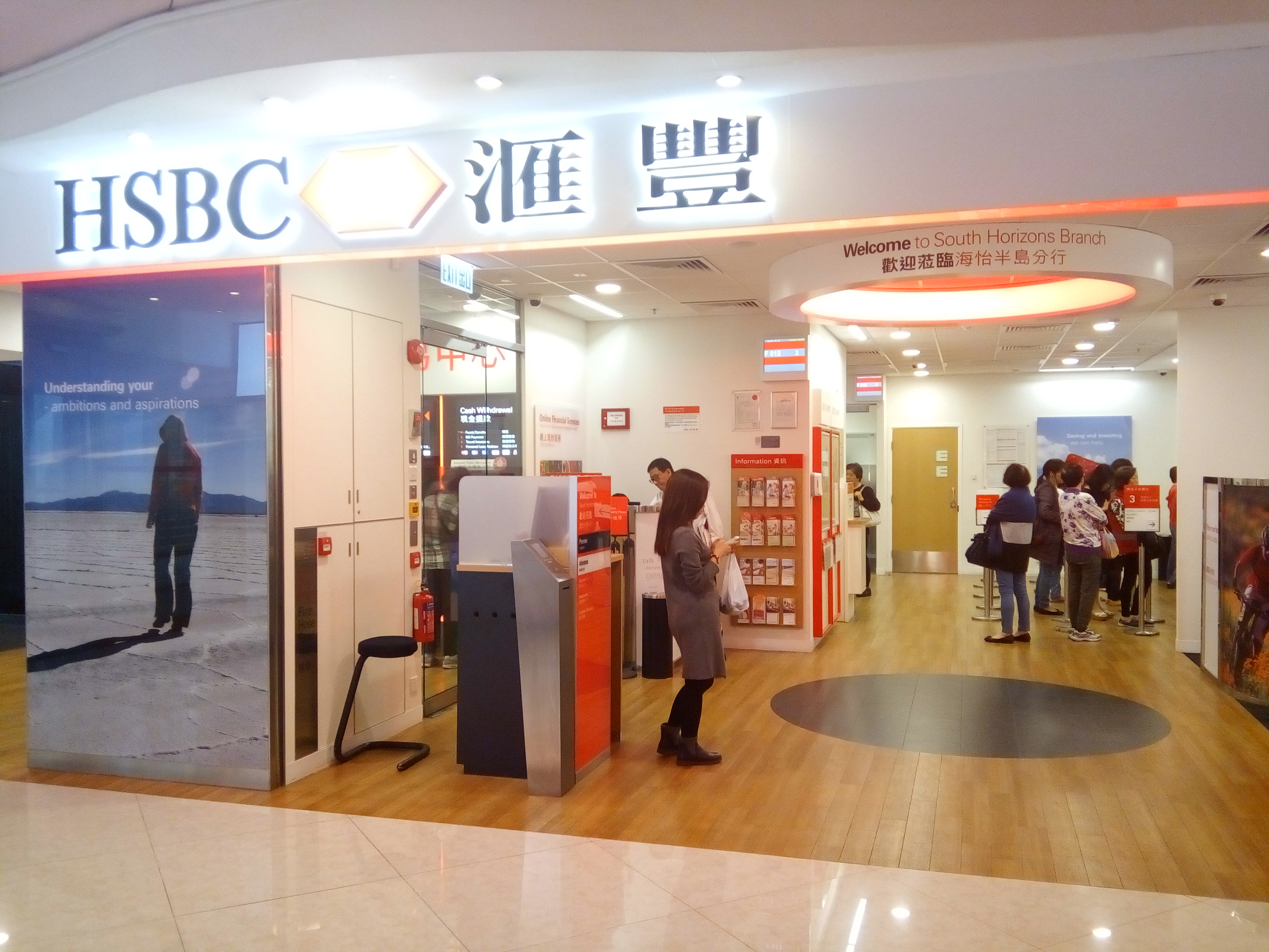 HK ALC South Horizons 海怡廣場 西翼 Marina Square West Centre shop in Dec 2016